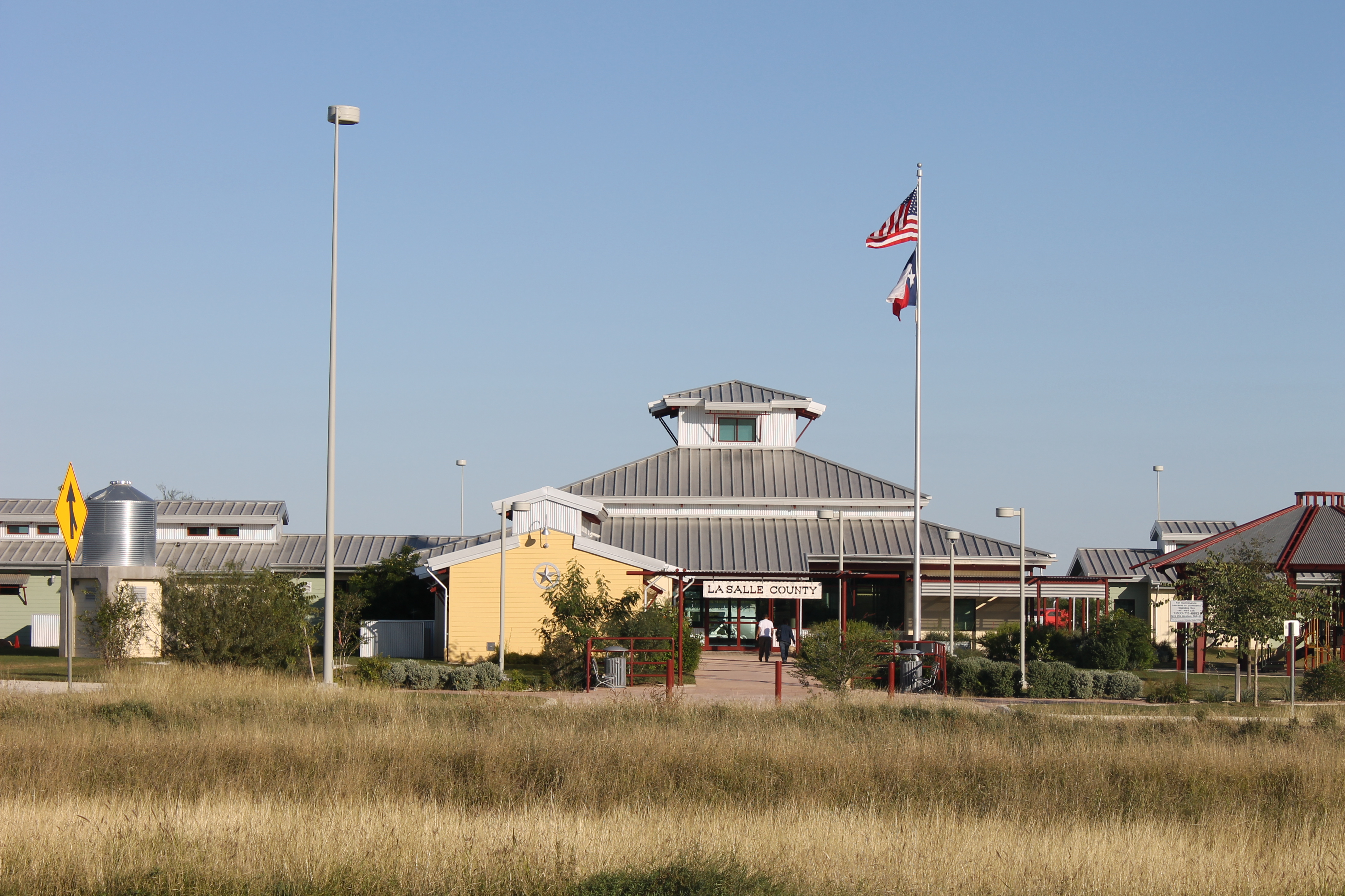 LaSalle County, TX, rest area south of Cotulla